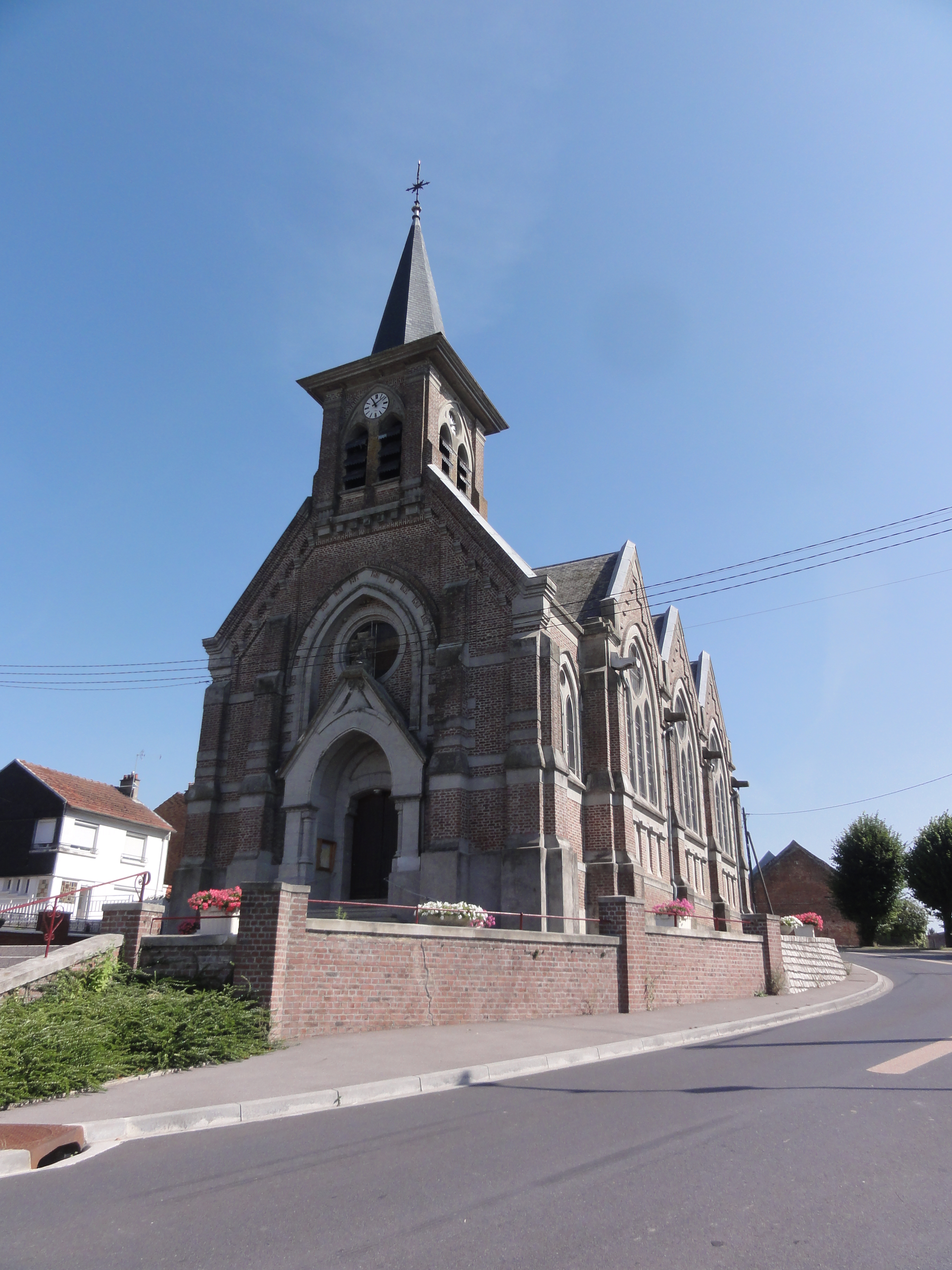 Thenelles (Aisne) église